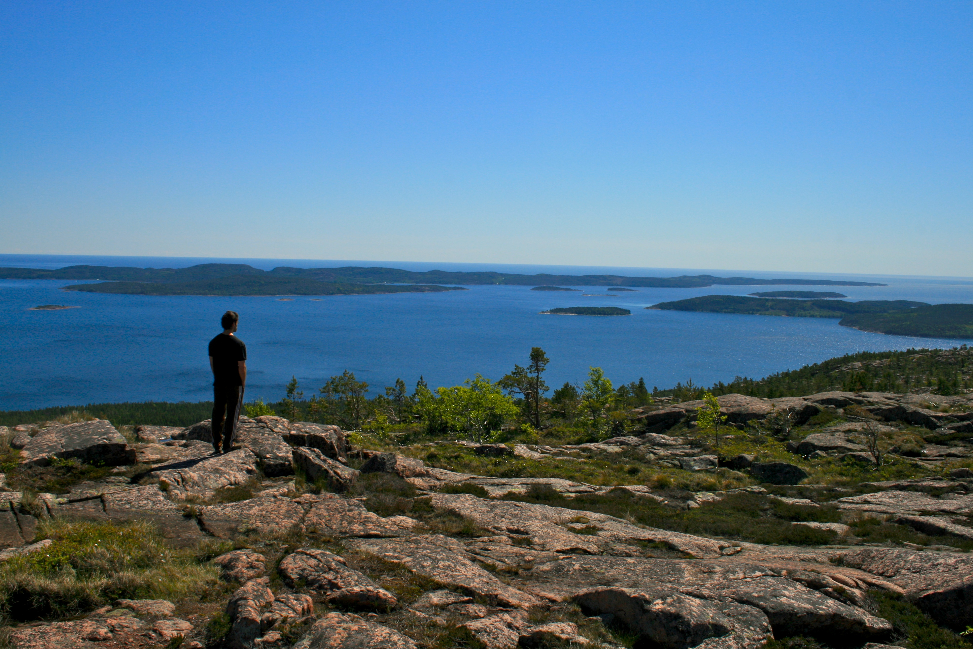 View from Slåttdalsberget, Skuleskogen national park.